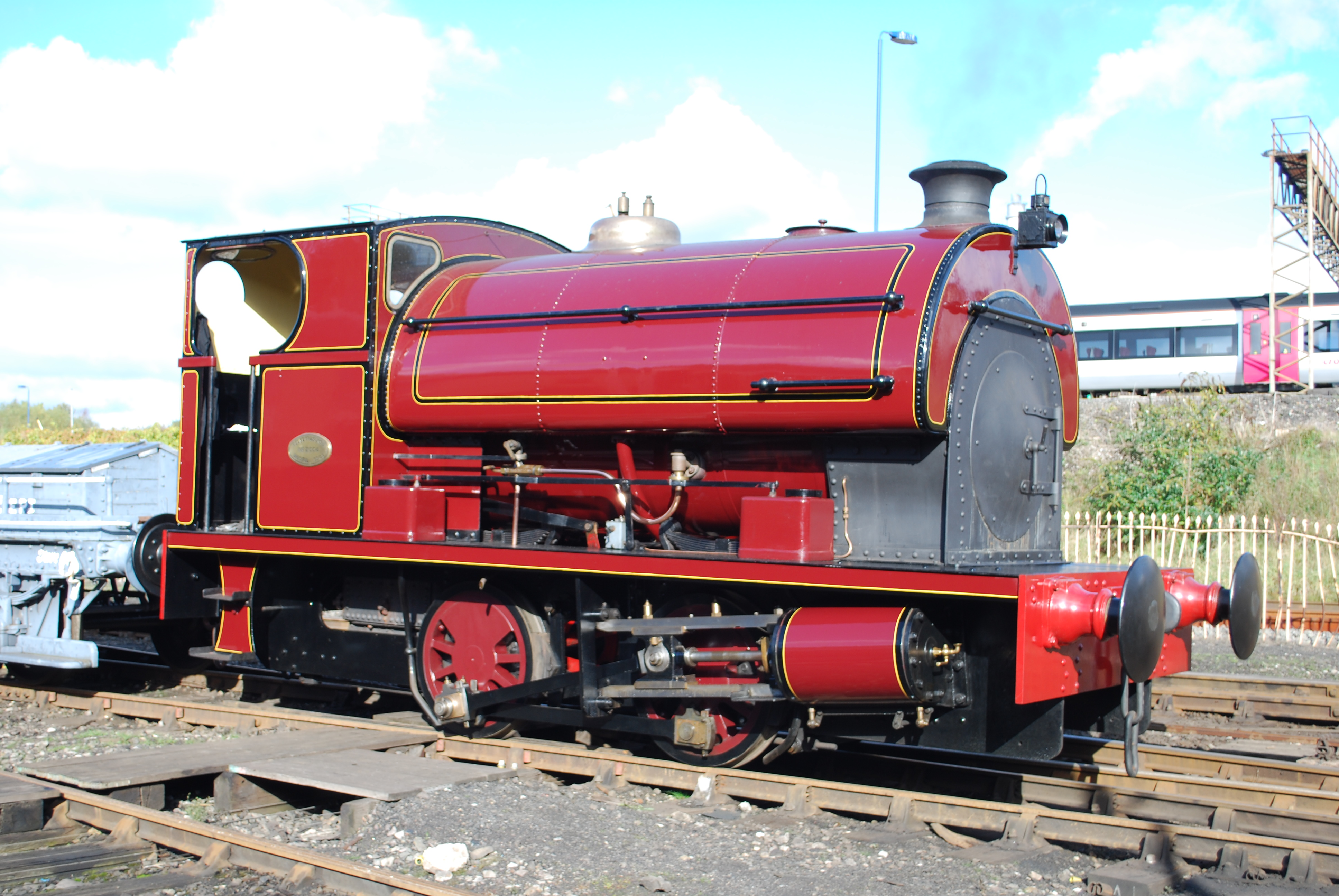 Peckett Type W7 0-4-0ST No.2004 of 1942 at Tyseley Depot, 10/10.